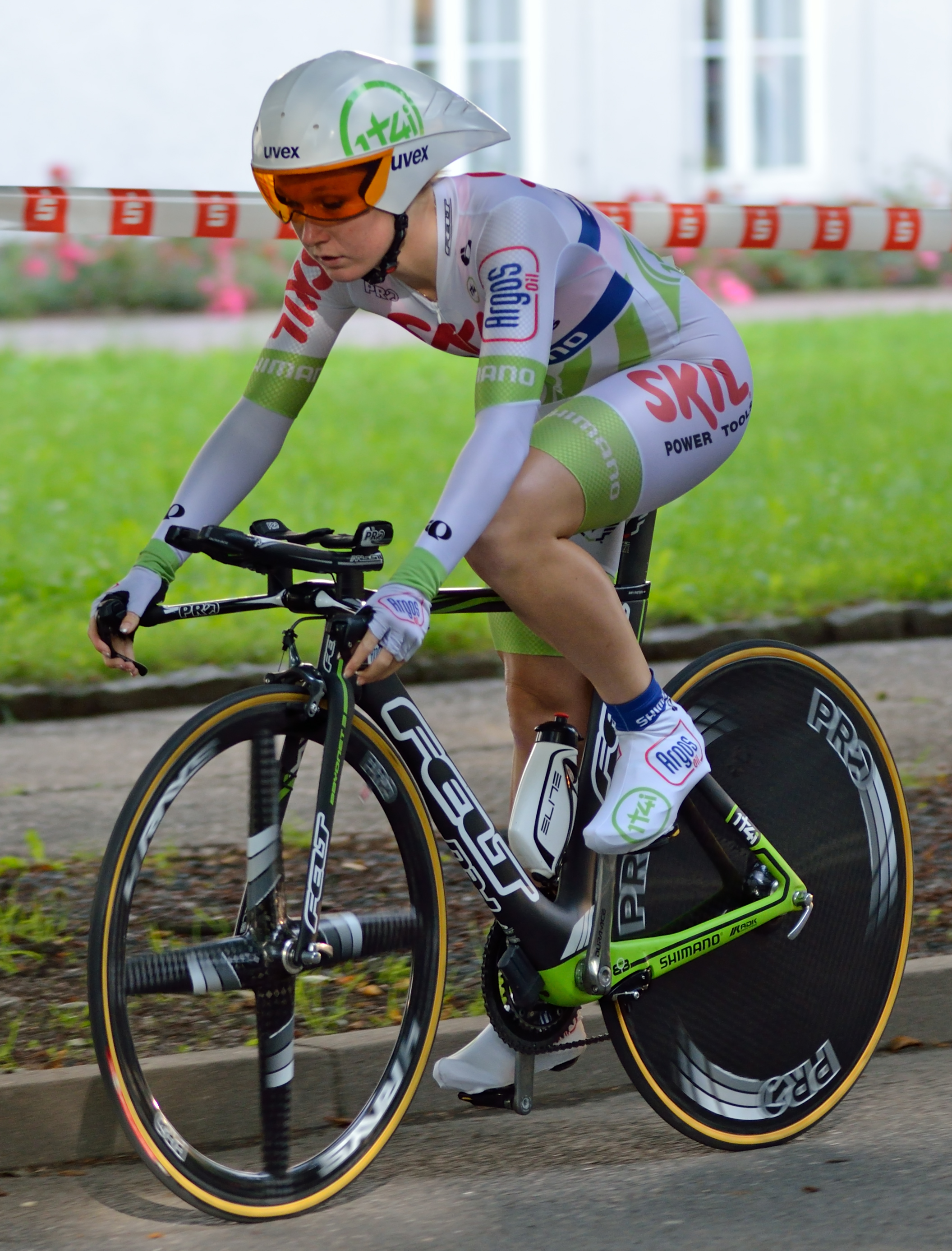 Amy Pieters from the Skil-Argos team during the Women's Tour of Thuringia 2012 in Zwickau, Germany.